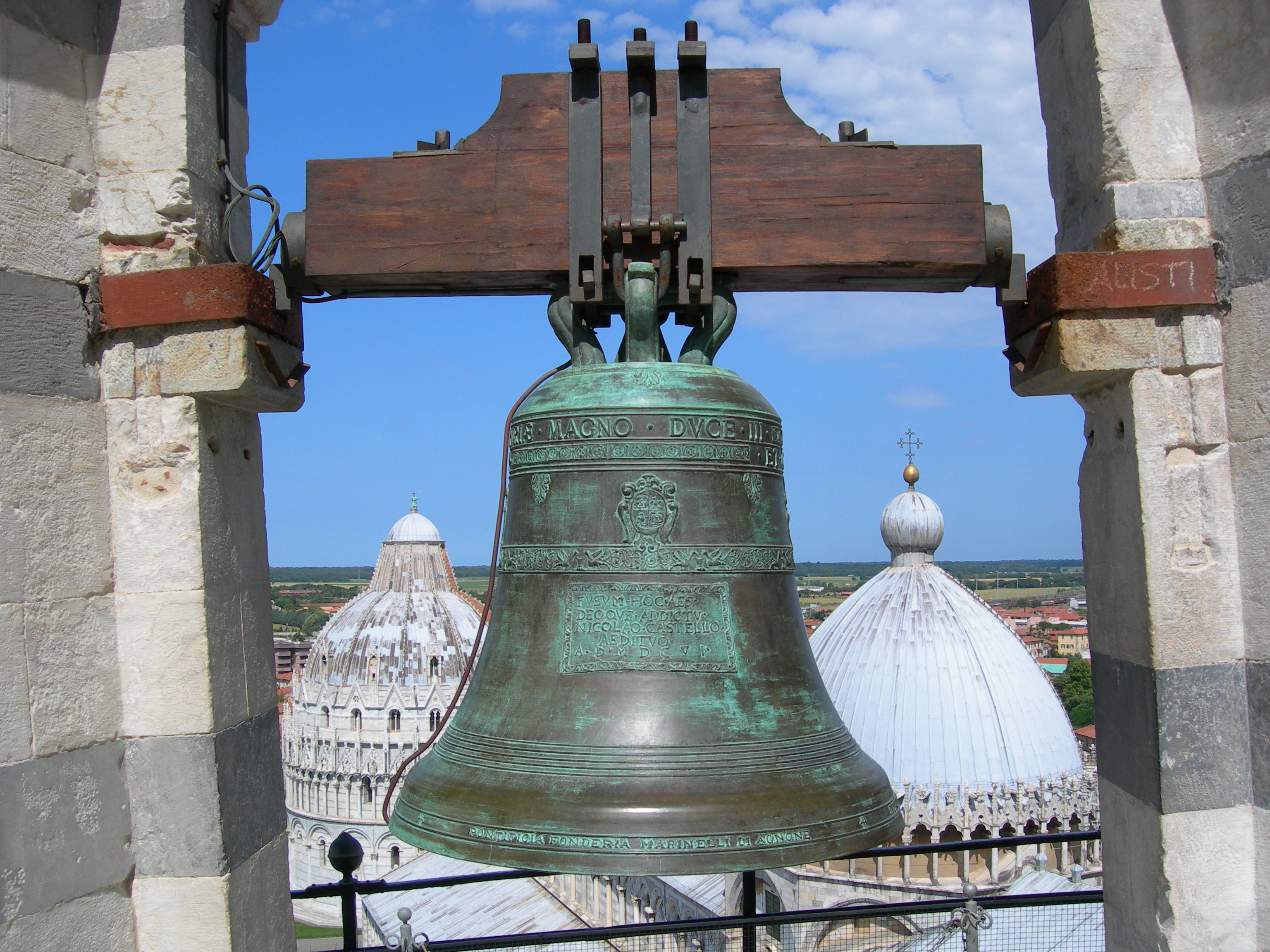 Bell "Dal Pozzo" in the "leaning tower of Pisa", dedicated by Nicola Castello, 1606.